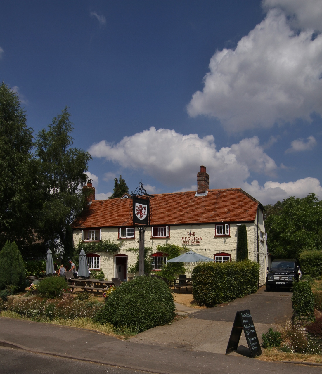 The Red Lion pub, High Street, Chalgrove, Oxfordshire, seen from **